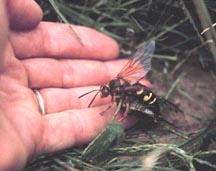 Photo of a cicada killer carrying a paralyzed cicada onto my hand.